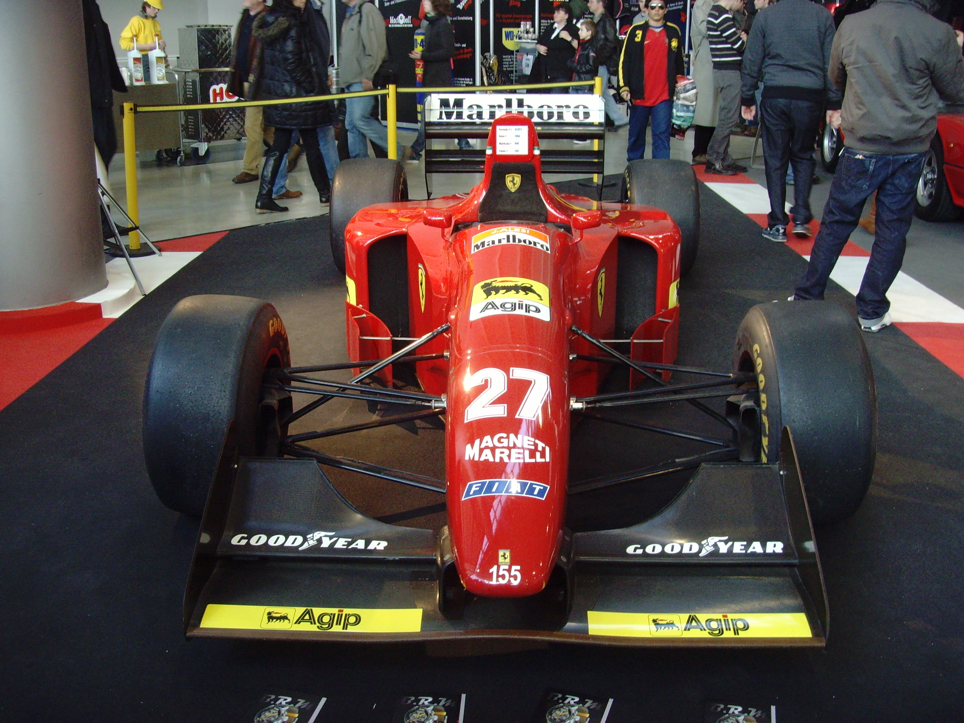 1994 Ferrari 412T1 at the 2010 Retro Classics